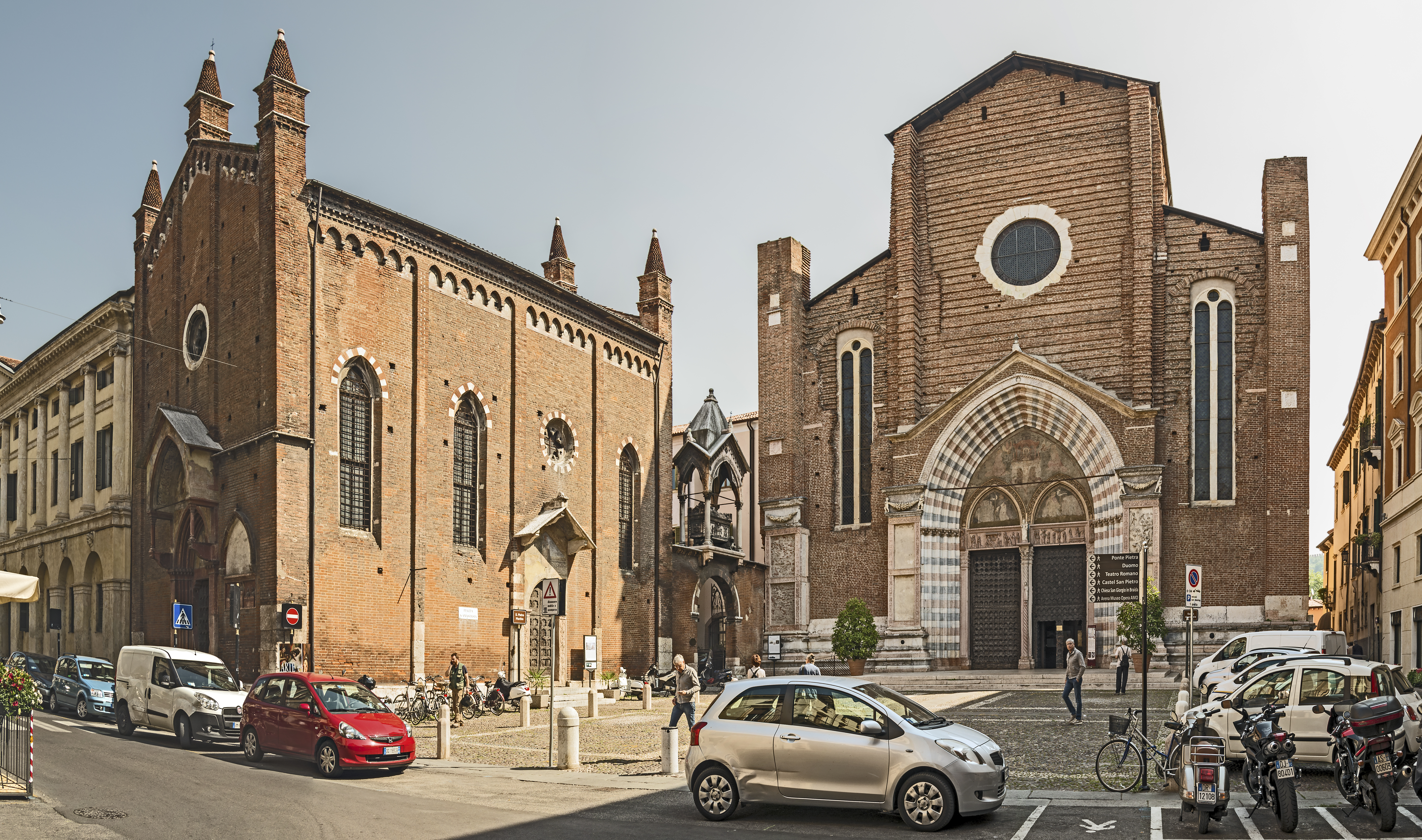 Piazza Sant'Anastasia in Verona. From left to right : the church of San Giorgetto or St Peter of Verona, the tomb of Guglielmo da Castelbarco, the façade of the Basilica Santa Anastasia.